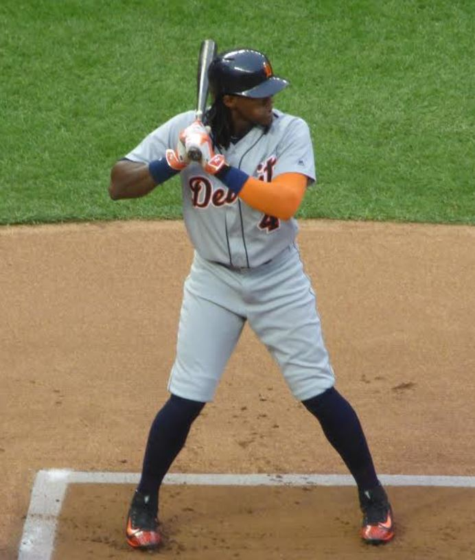 Cameron Maybin leading off for the Detroit Tigers on 8/24/16.